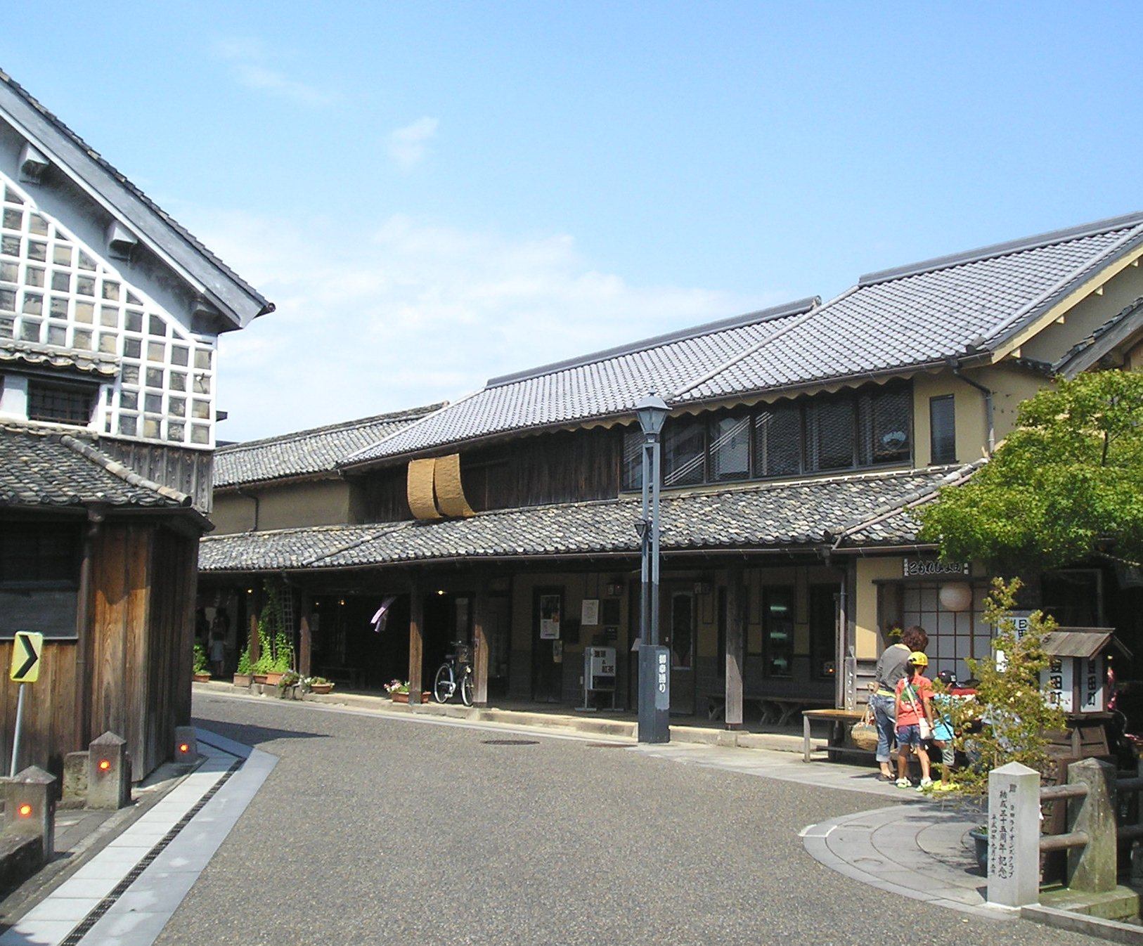 An old street in Mameda, Hita, Oita, Japan